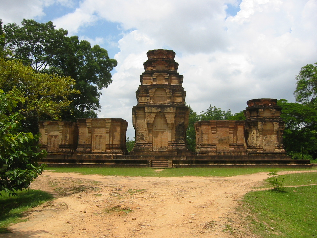 Prasat Kravan temple at Angkor, Cambodia (Samuel Maddox, Canon PowerShot 330)